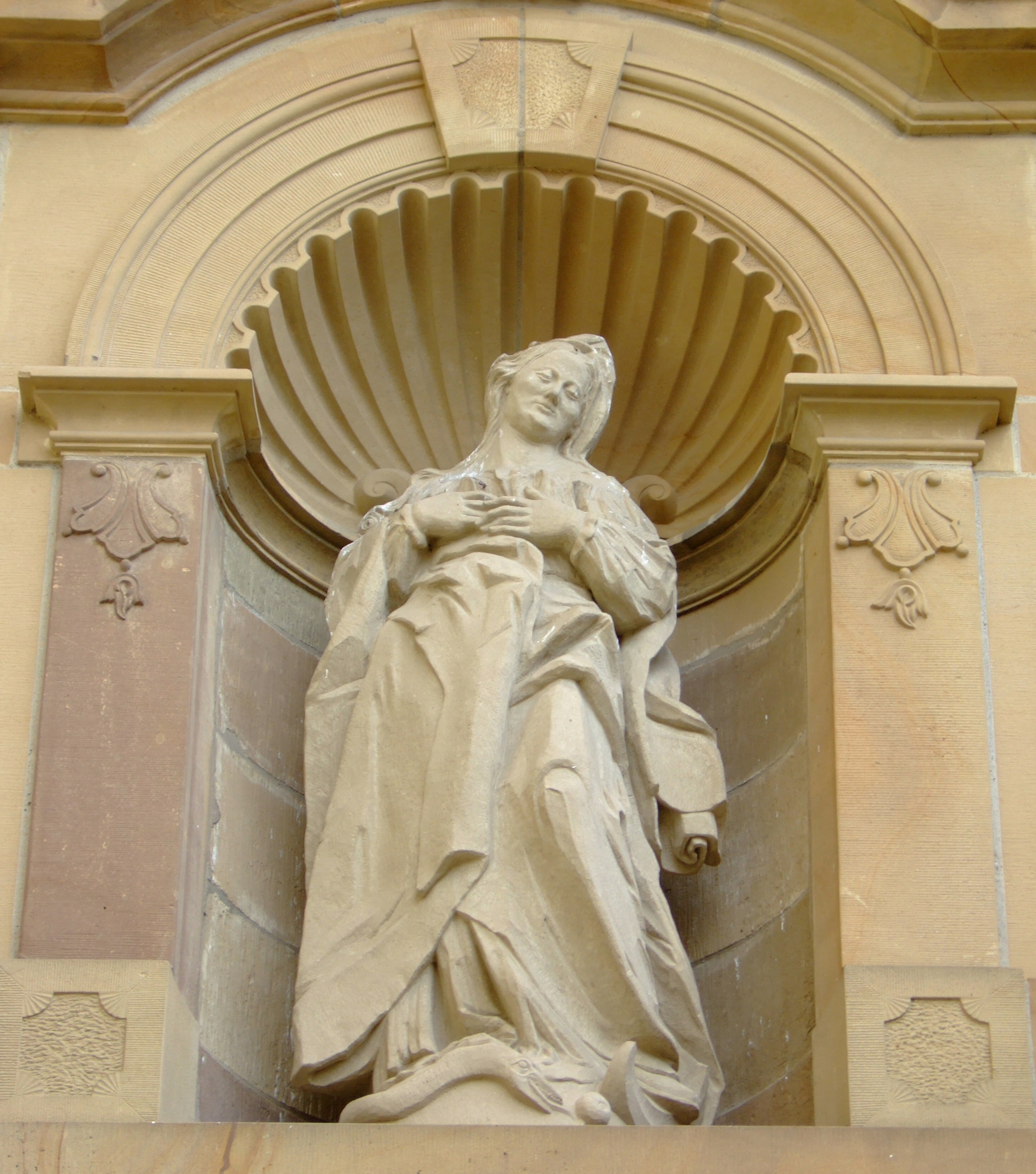 Madonna above the entry of the sacristy of the Church "St. Dionysius" of Neckarsulm/Germany